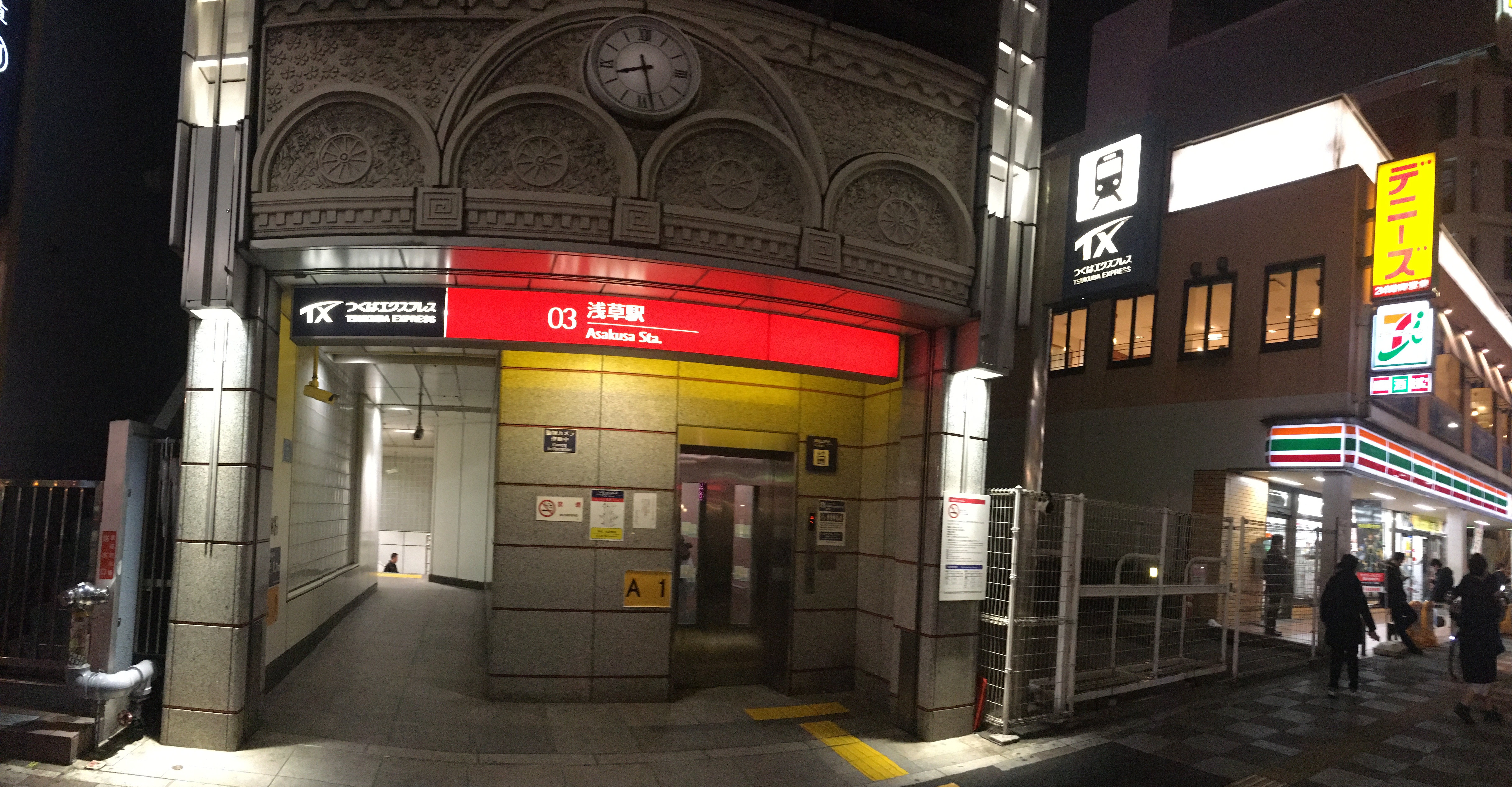 TX浅草駅のA1出口 (TX Asakusa Station A1 exit)